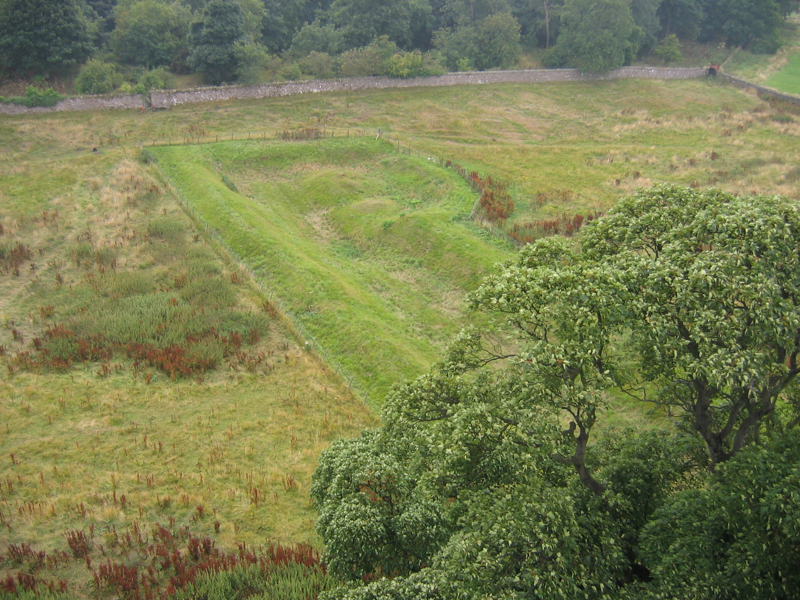 Craigmillar Castle, Edinburgh, Scotland. Pond to the south in the shape of a P for Preston, the family name.